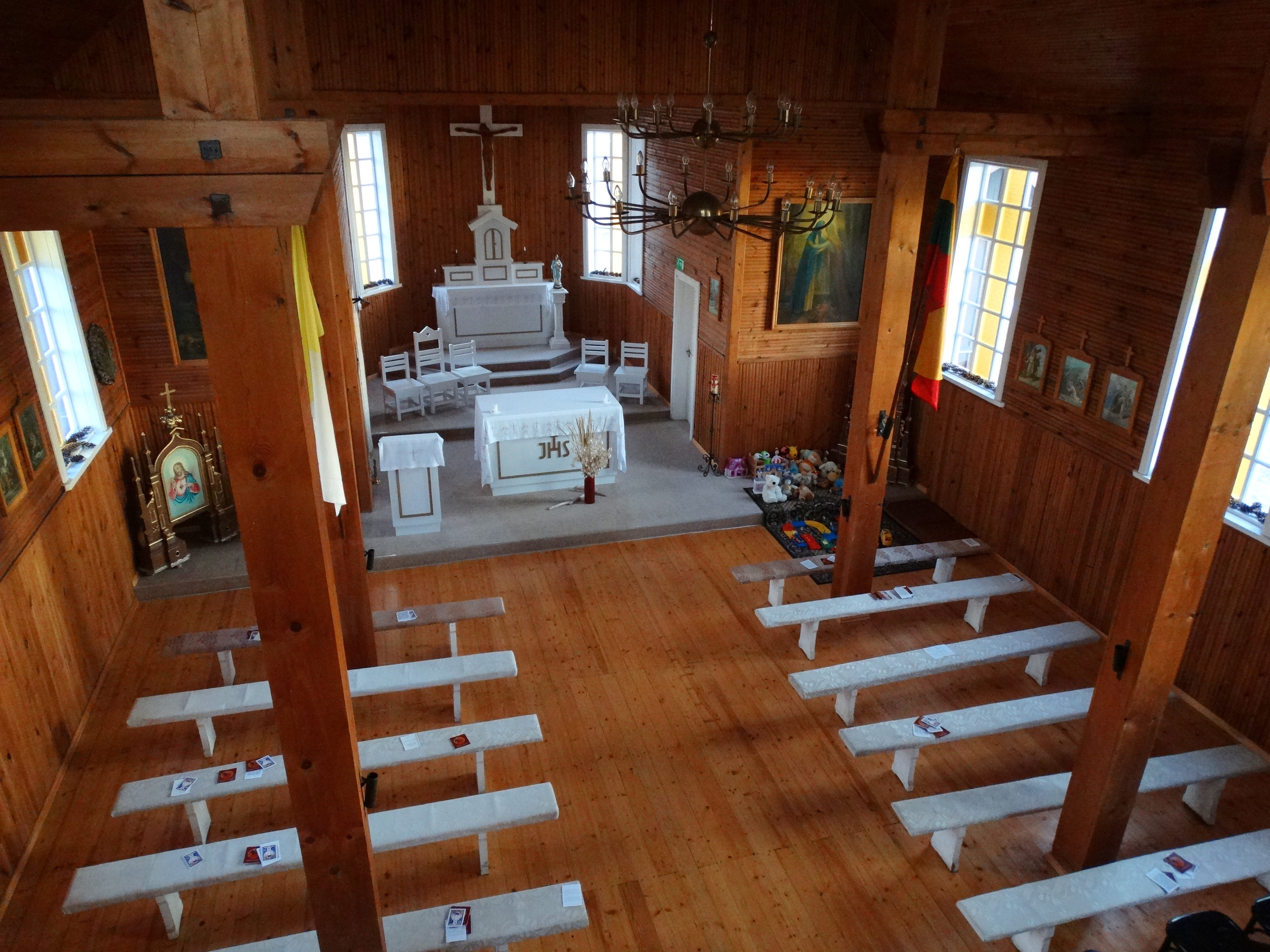 Viršužiglis chapel, Kaunas District, Lithuania